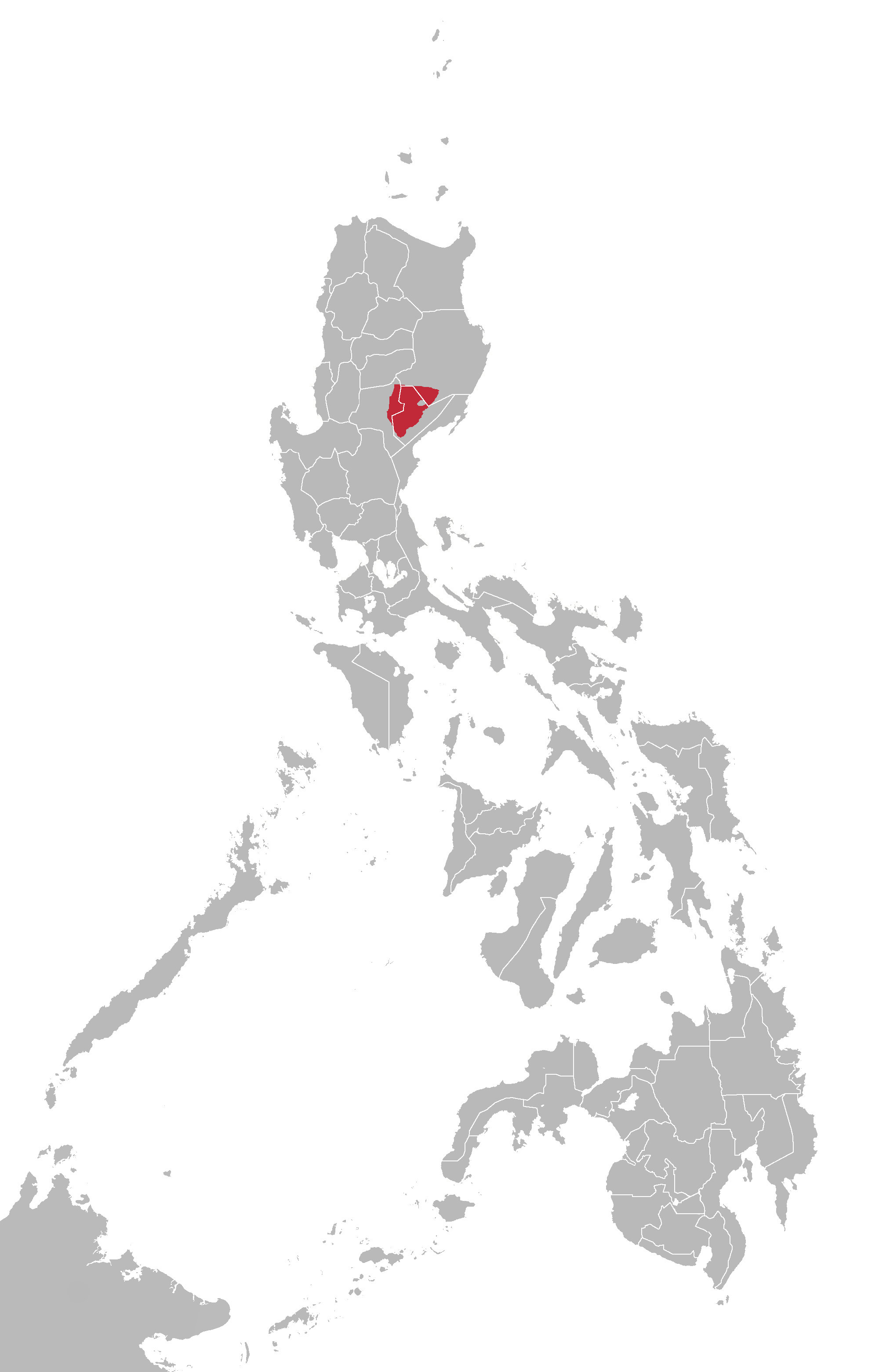 Ilongot language map based on Ethnologue maps